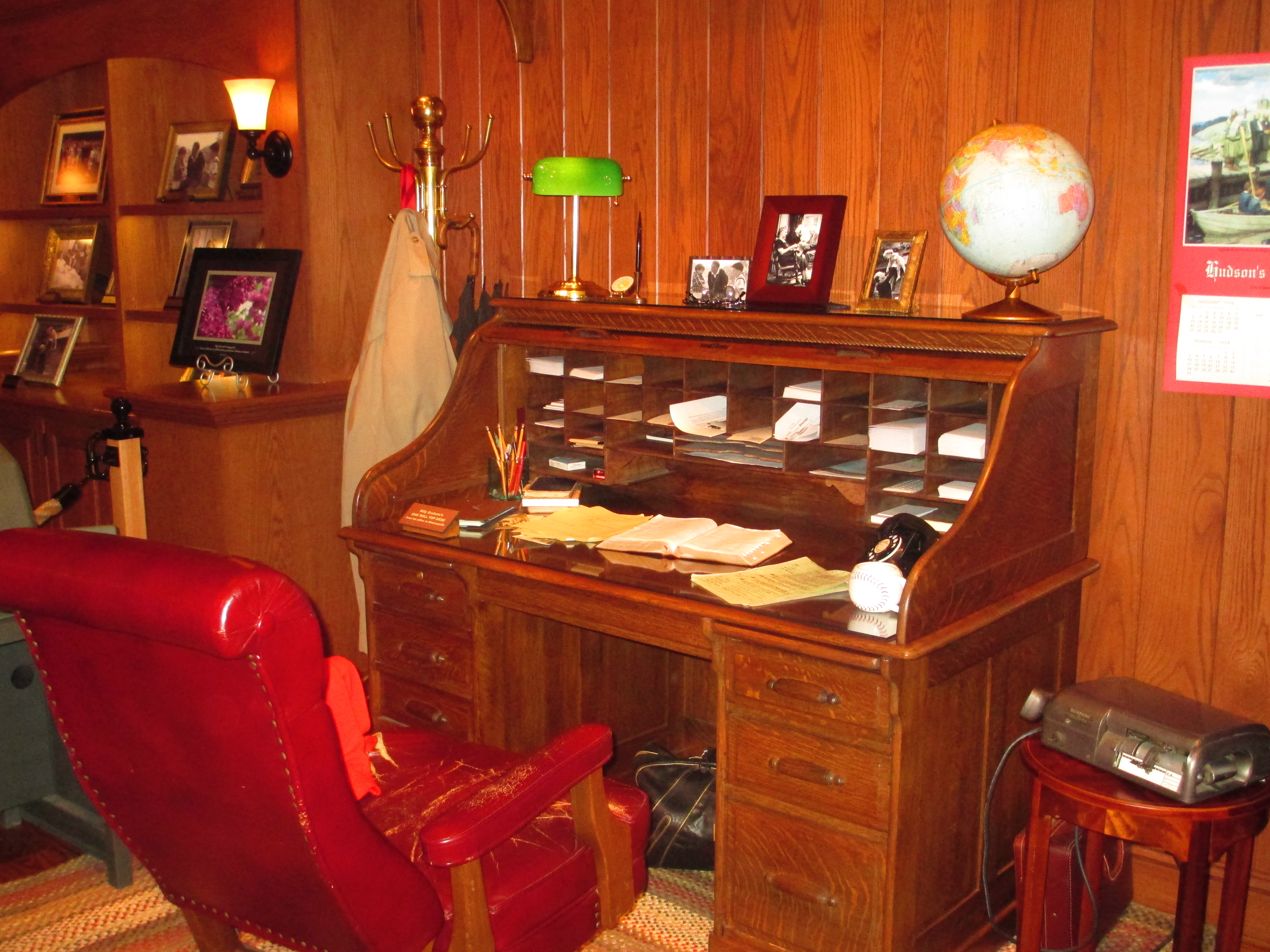 I took picture of restore desk of Billy Graham with Canon camera.